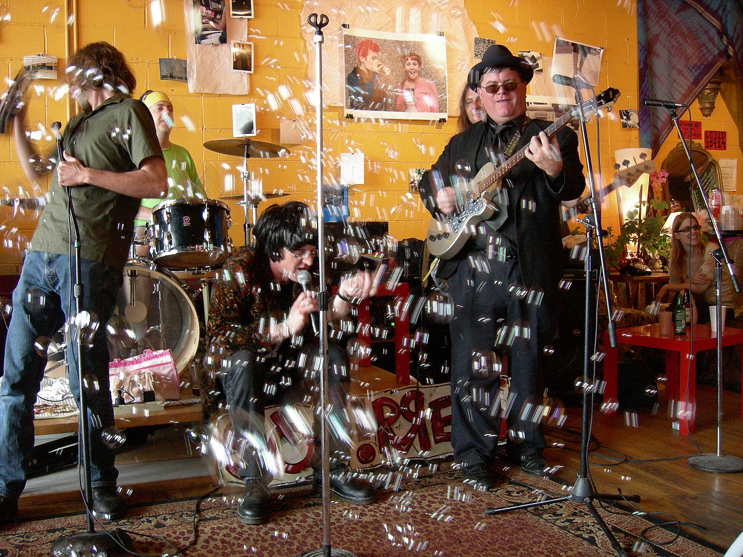 The Squirrels performing at Mr. Spot's Chai House, in the Ballard neighborhood of Seattle, Washington. With lots of bubbles. Left to right: In foreground: Hollis the Bug, Rob Morgan, Joey Kline. Drummer: James "Cookie" Cookman. Behind Joey: Matt Fox.